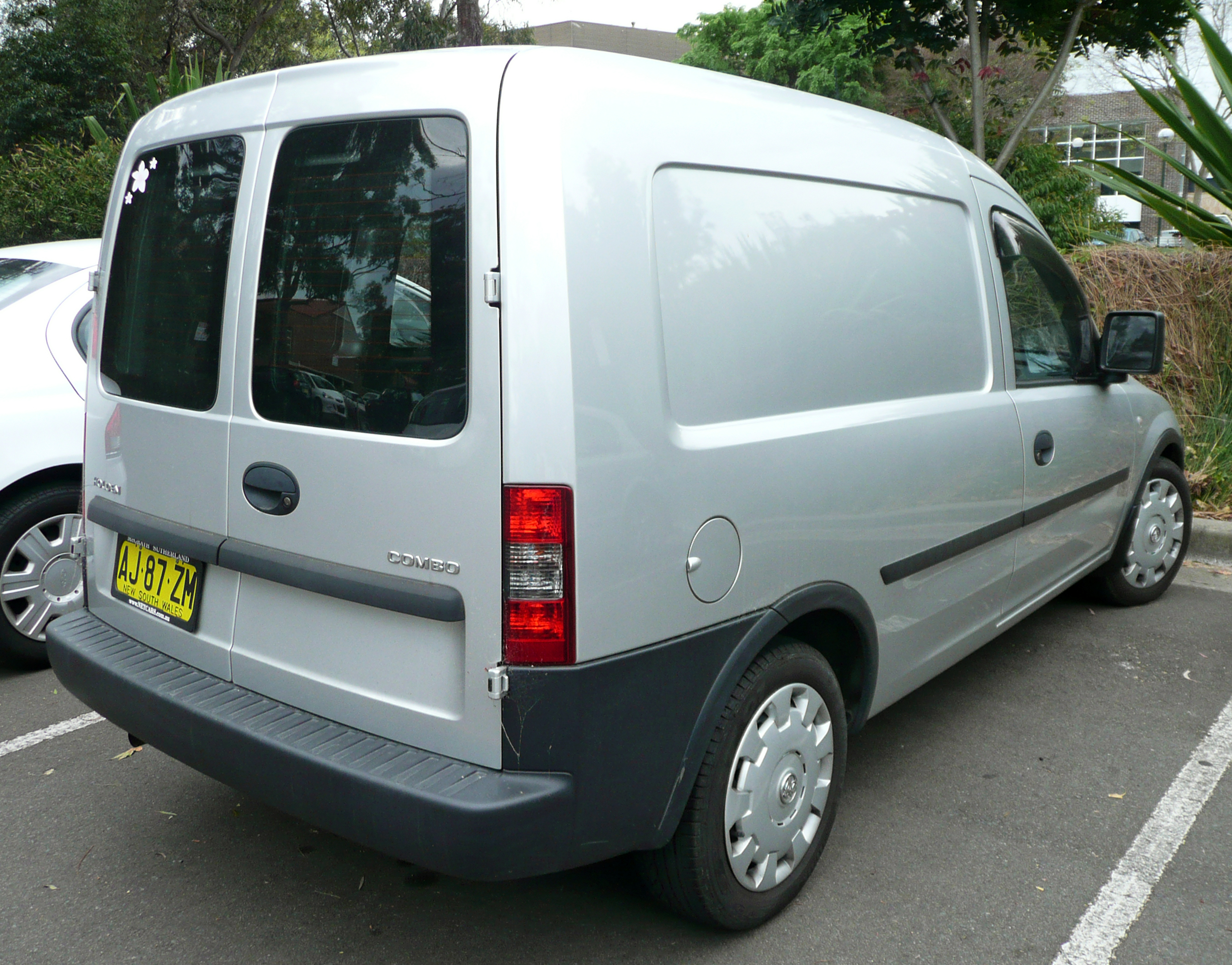 2006 Holden XC Combo (MY05) van. Photographed in Sutherland, New South Wales, Australia.